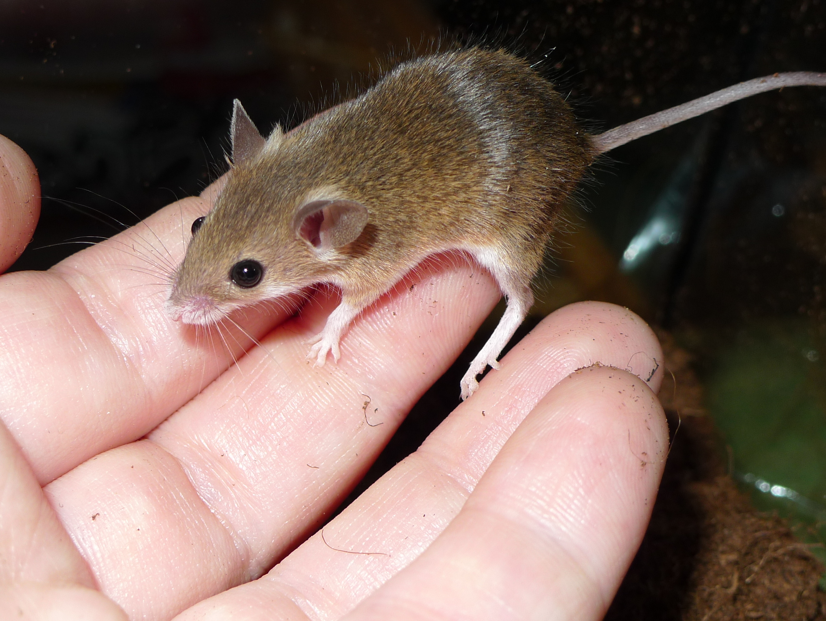 Mus mattheyi